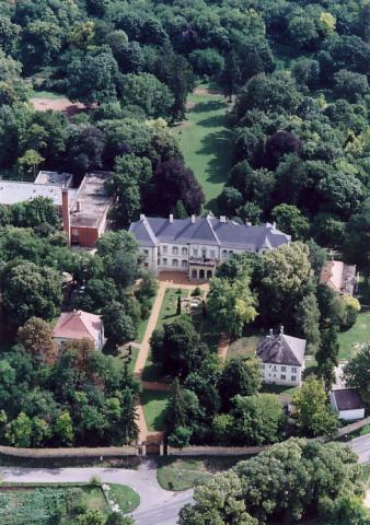 Iregszemcse, Hungary, aerialphotography